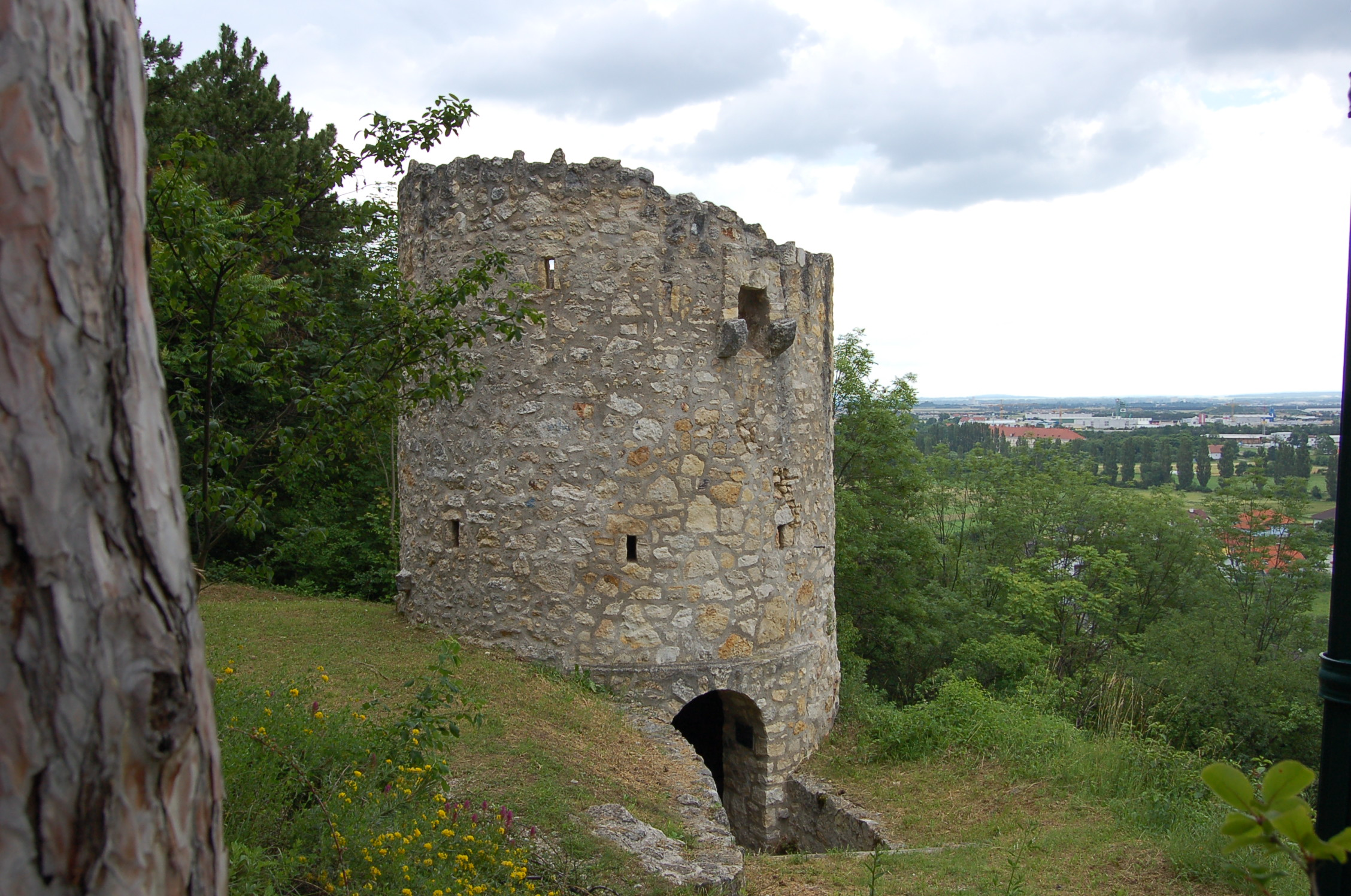 Höhlturm (literally: Cave tower) above the northern edge of Wöllersdorf, Lower Austria